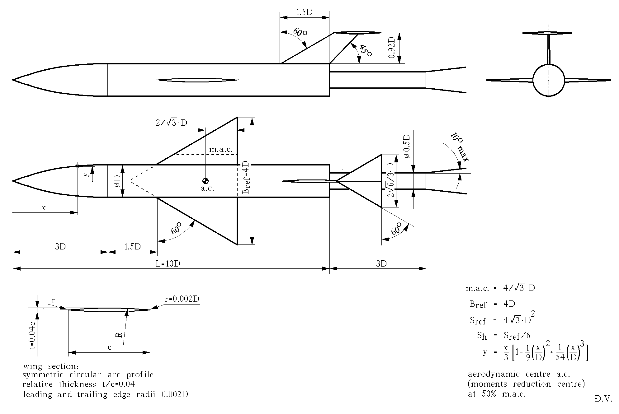 Definition of the geometry of the AGARD-C standard wind tunnel model